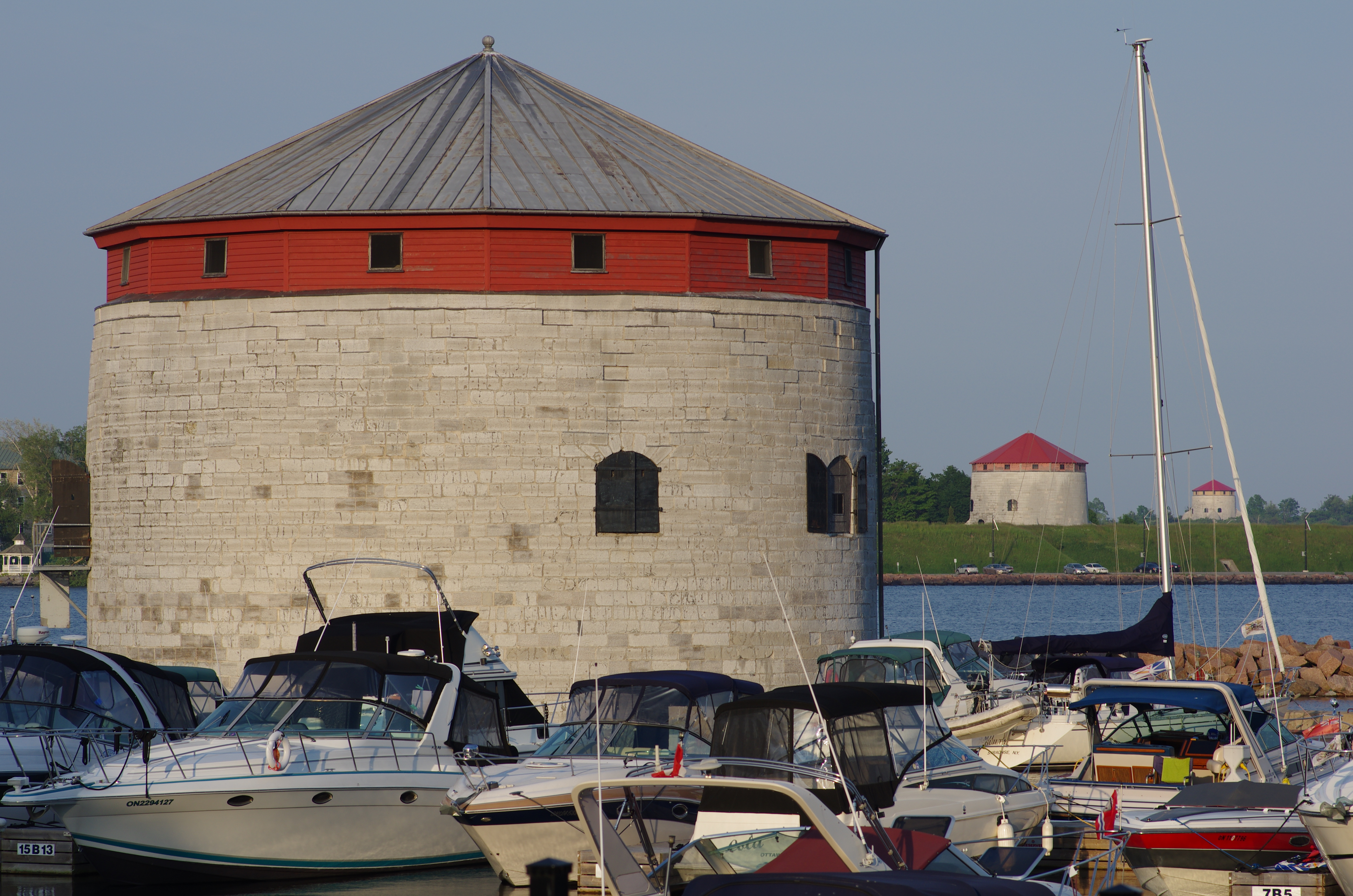 Three Martello towers in Kingston Ontario, viewed from Centenial park